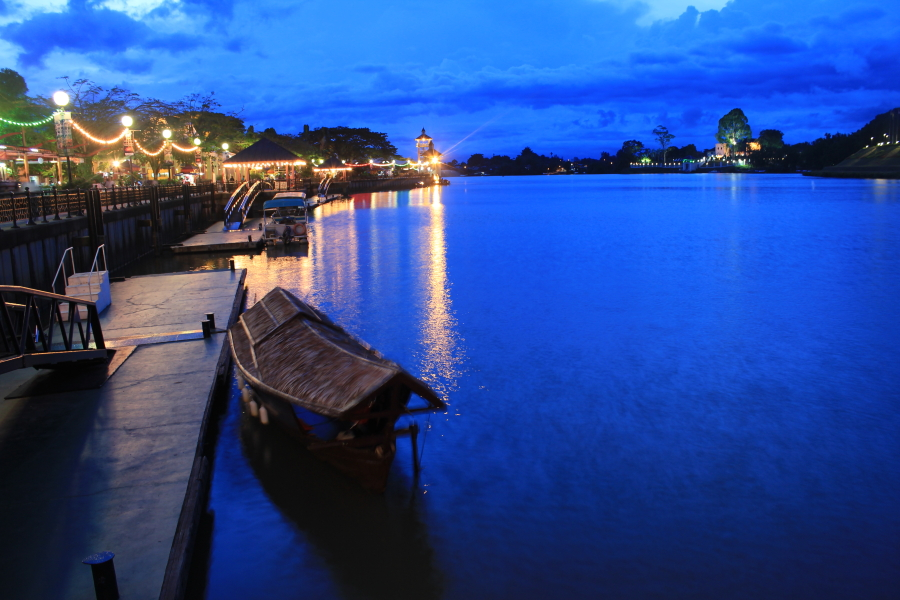 Water transportation in Kuching.